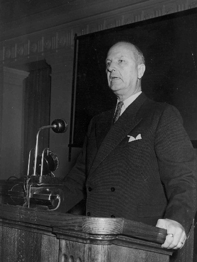 Photograph of the Finnish politician Eero Rydman (1889–1963).